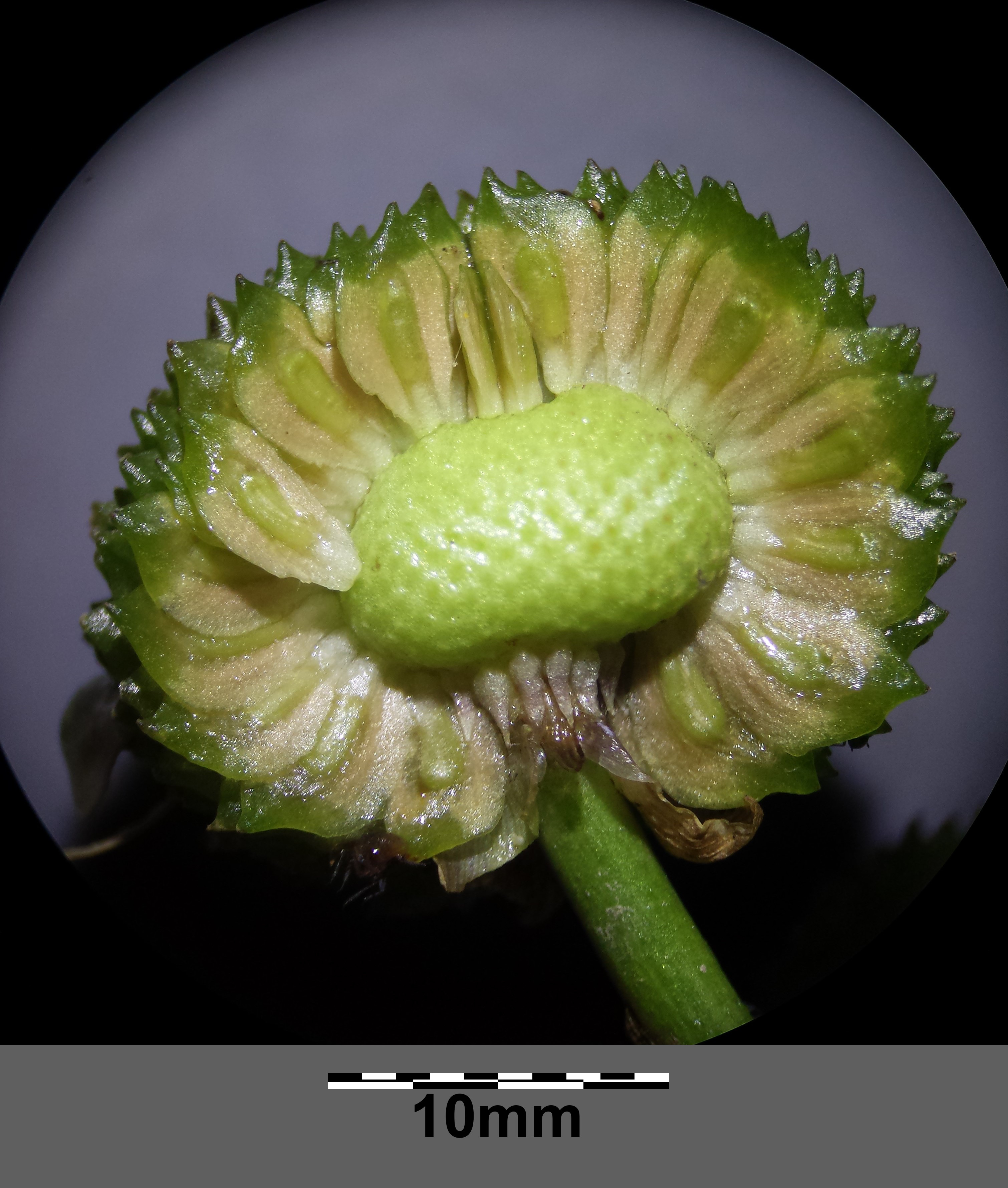 Fruit, front fruitlets removed Taxonym: Sagittaria sagittifolia ss Fischer et al. EfÖLS 2008 ISBN 978-3-85474-187-9 Location: Neue Donau, district Korneuburg, Lower Austria - ca. 160 m a.s.l. Habitat: shore